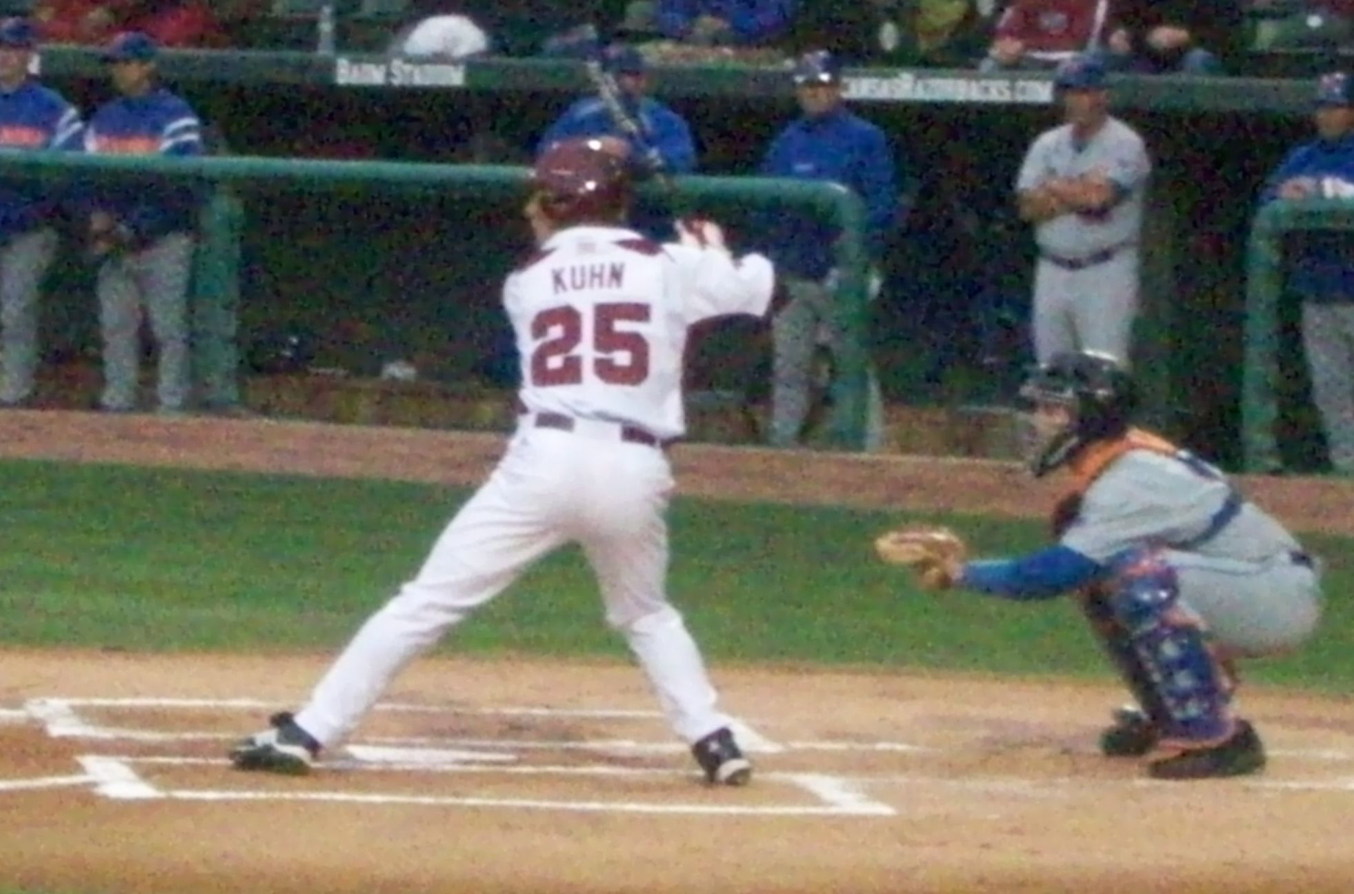 Collin Kuhn, a baseball player for the 2009 University of Arkasas Razorbacks baseball team.